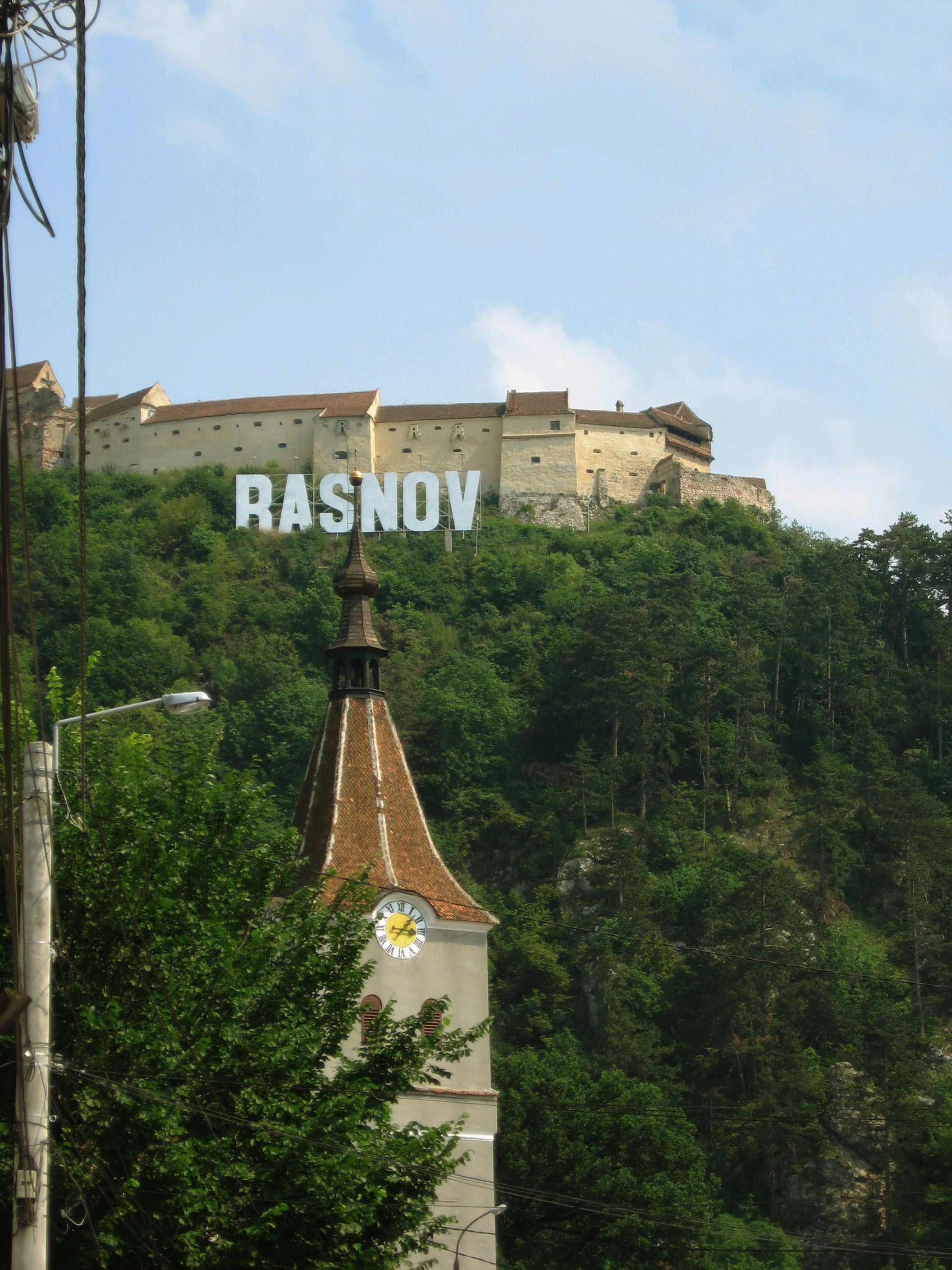 The infamous "Rasnov Hollywood sign" on top of Râşnov Castle in Rasnov, Romania.